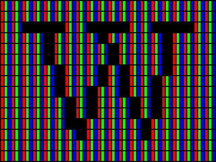 Capital letter "W" rendered with no antialiasing and enlarged using a program that displays the individual subpixels.